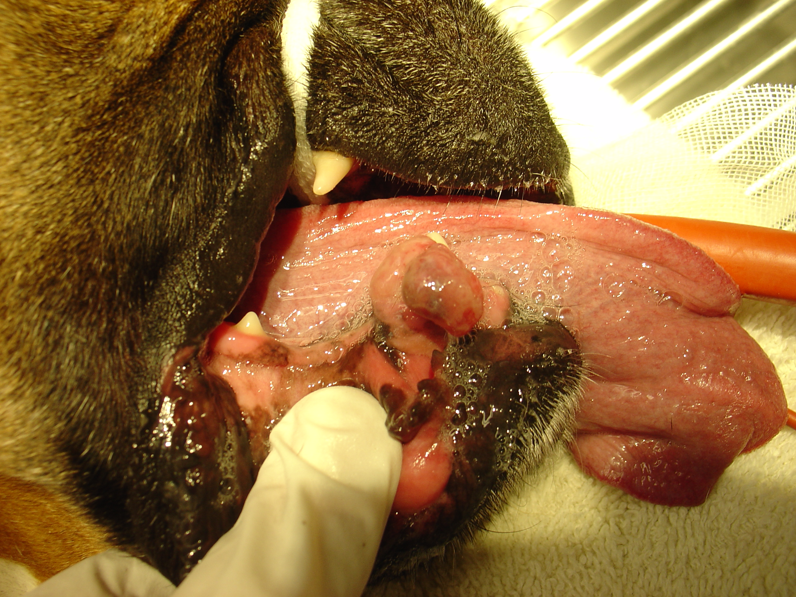 Fibrous epulis surrounding the lower right canine tooth in a Boxer dog. The dog is anesthetised prior to removal of the epulis. The orange object projecting from his mouth is an endotracheal tube.